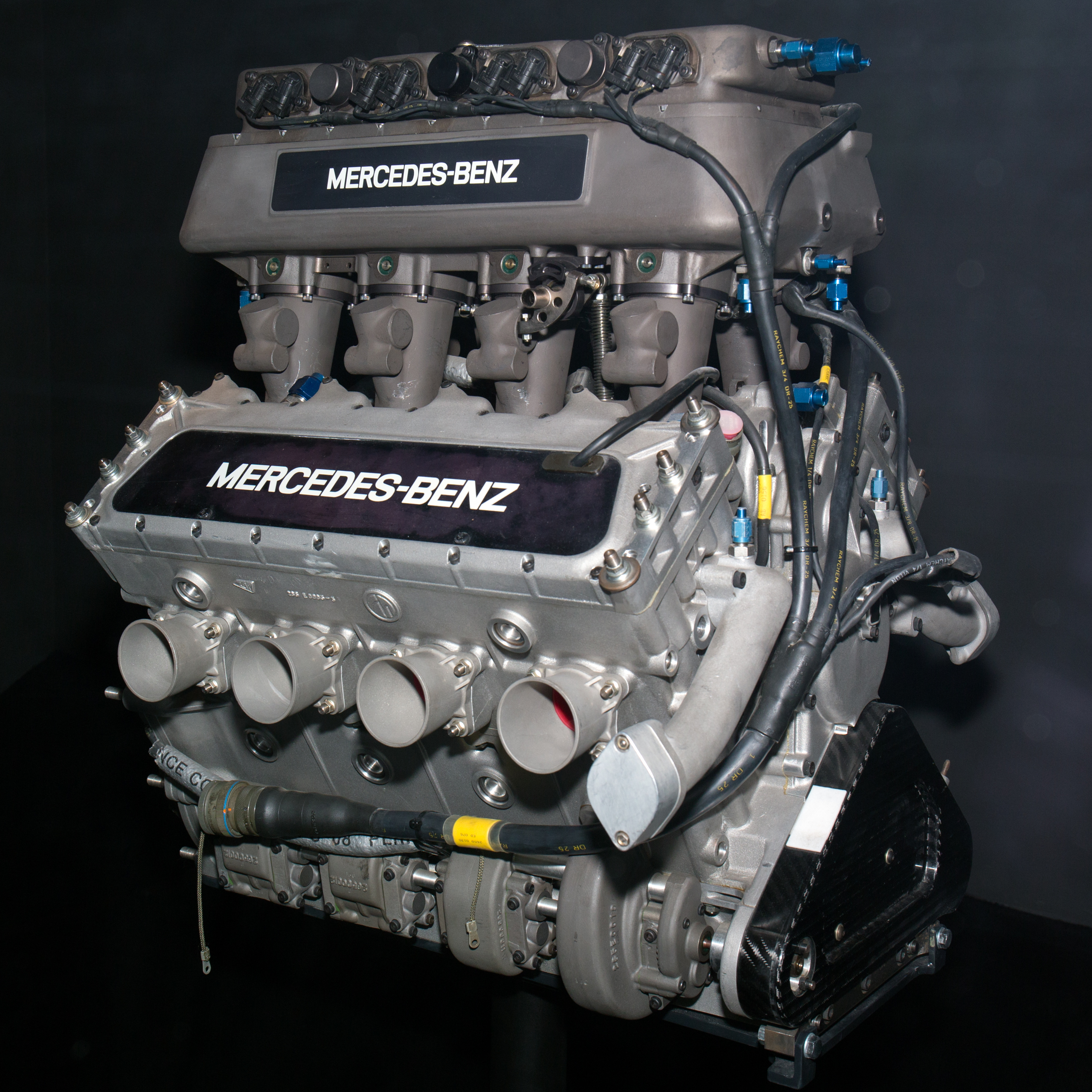 1994 Mercedes-Benz 500 I IndyCar engine